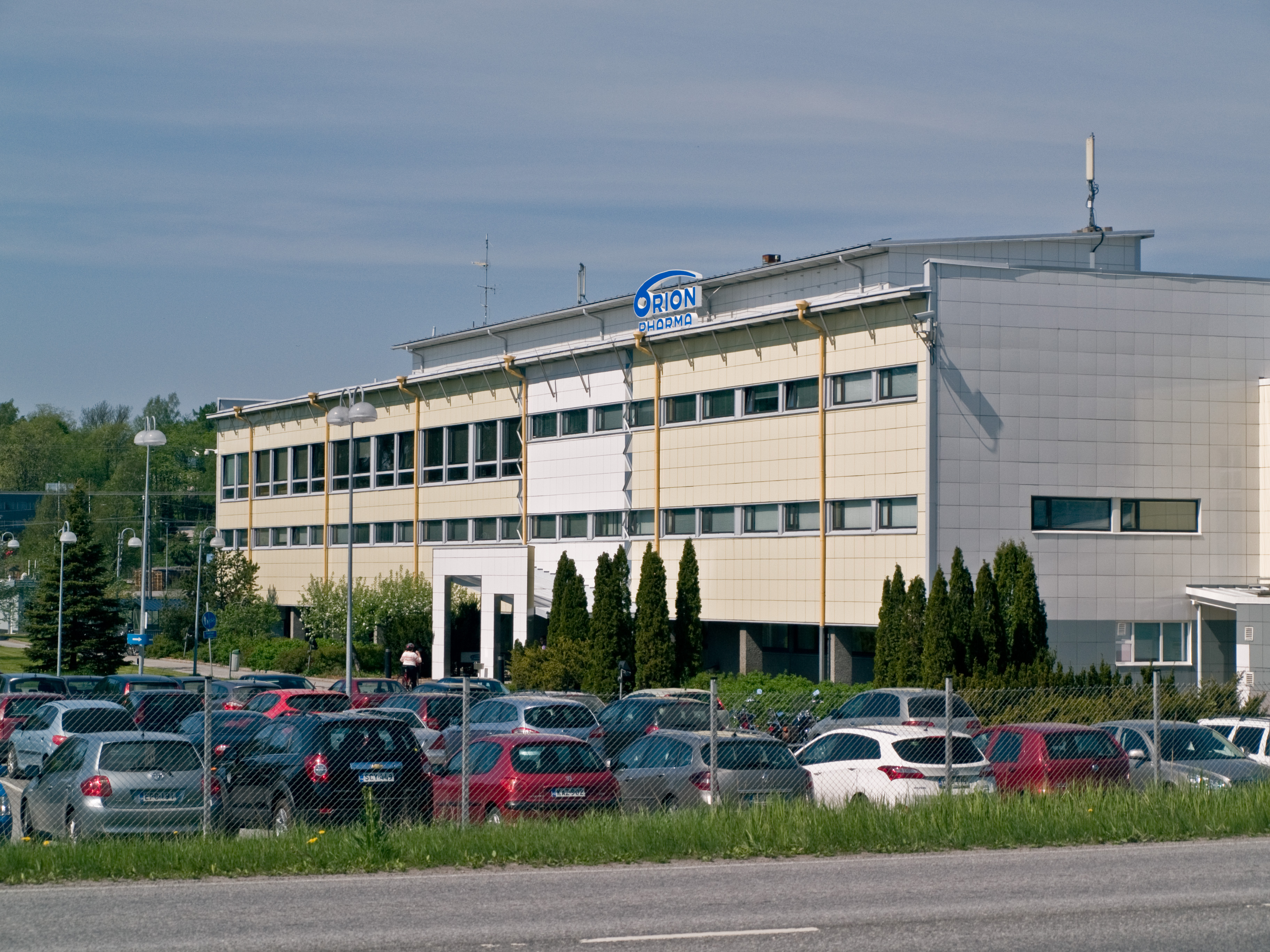 Factory owned by Orion pharmaceutical company in Turku, Finland.